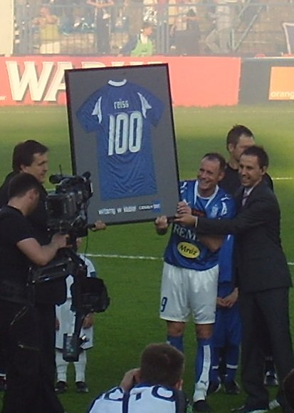 Piotr Reiss - soccer player from Polish football club Lech Poznań